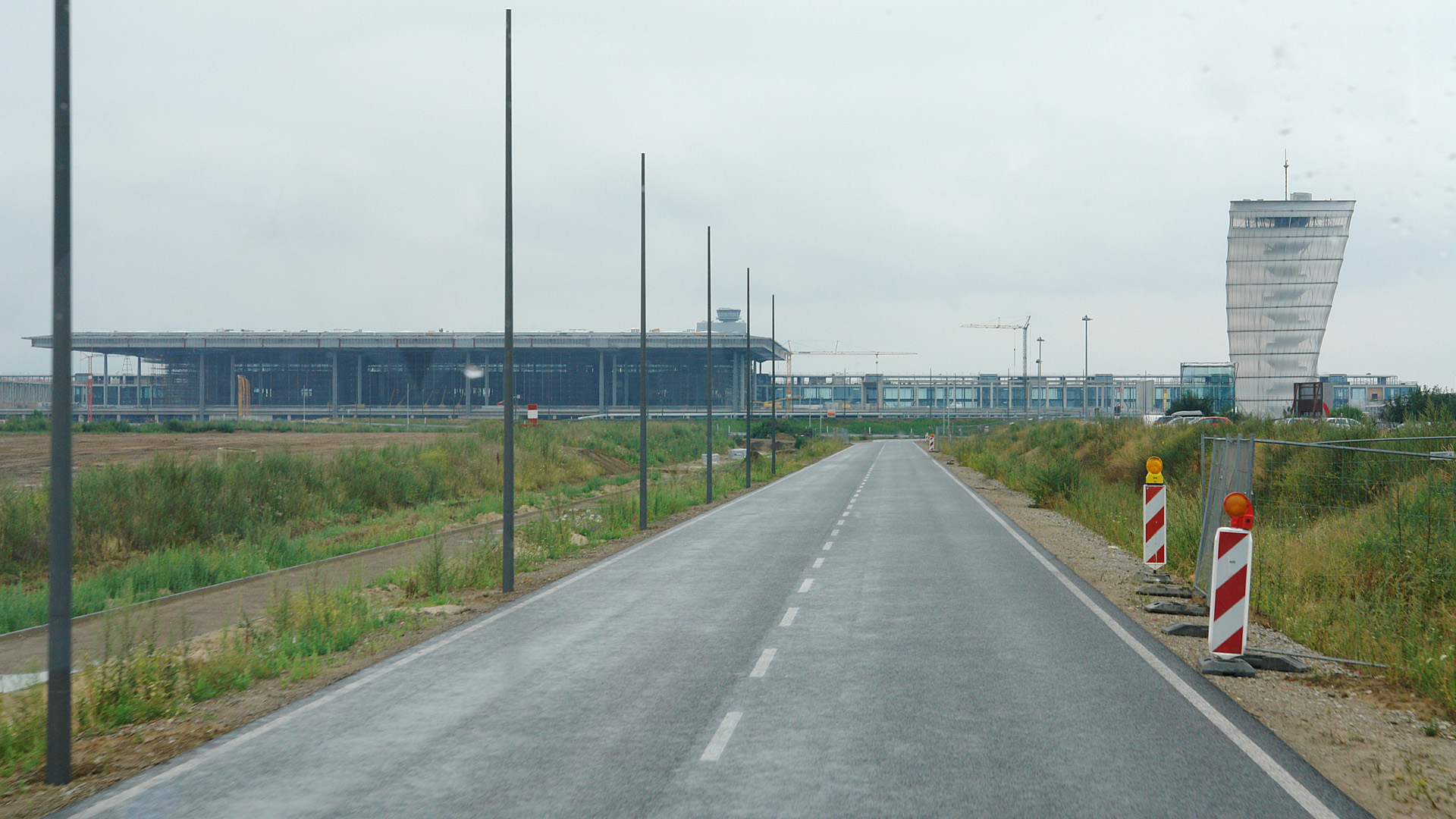 The main terminal of the new Airport Berlin Brandenburg (BER) with the BBI Infotower on the right.